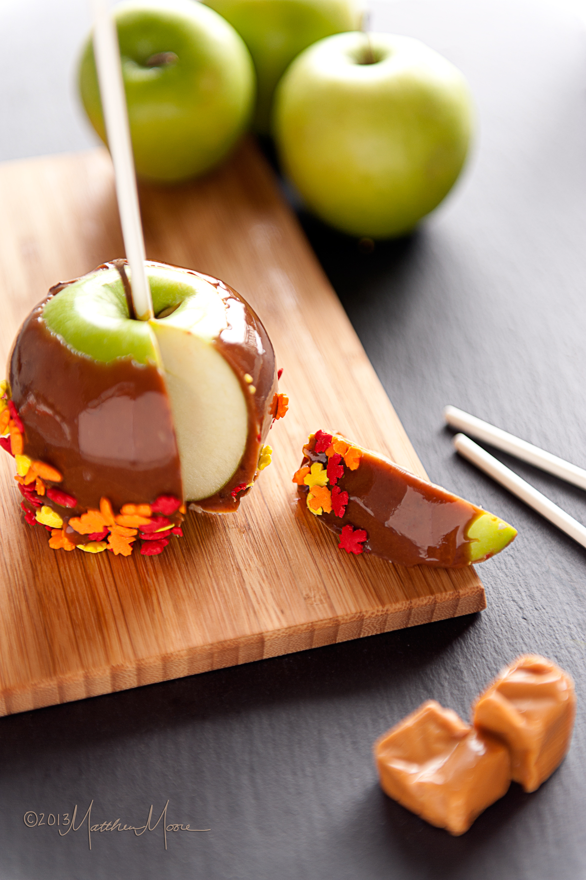 Caramel Apple Two